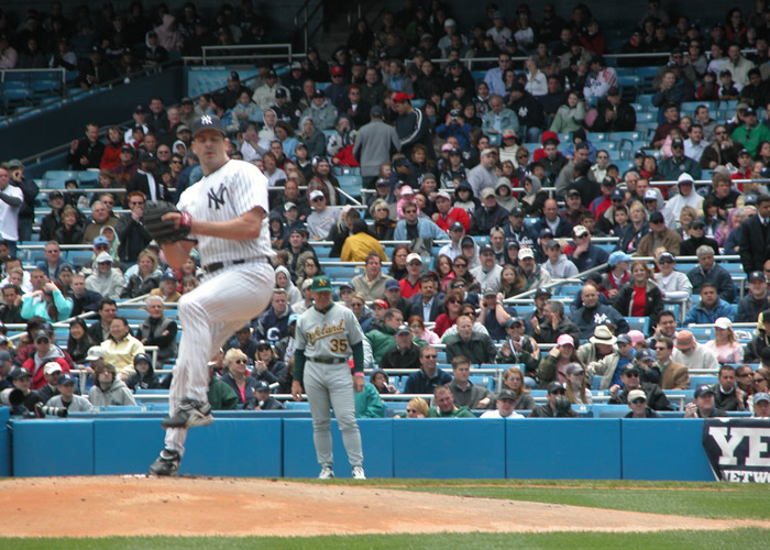 I took this picture at a Yankees V. A's Game 22:24, 1 February 2007 . . Xxpunkcheese98xx . . 700×500 (139 KB)